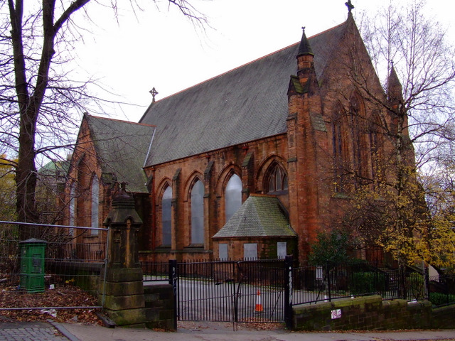 Belmont Church (later Lilybank Church) on Great George Street and Lilybank Terrace, Glasgow, prior to redevelopment (still under negotiation)